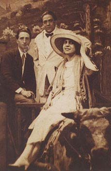 Beatrice Wood and Marcel Duchamp (far left) at Coney Island, New York, June 21, 1917.